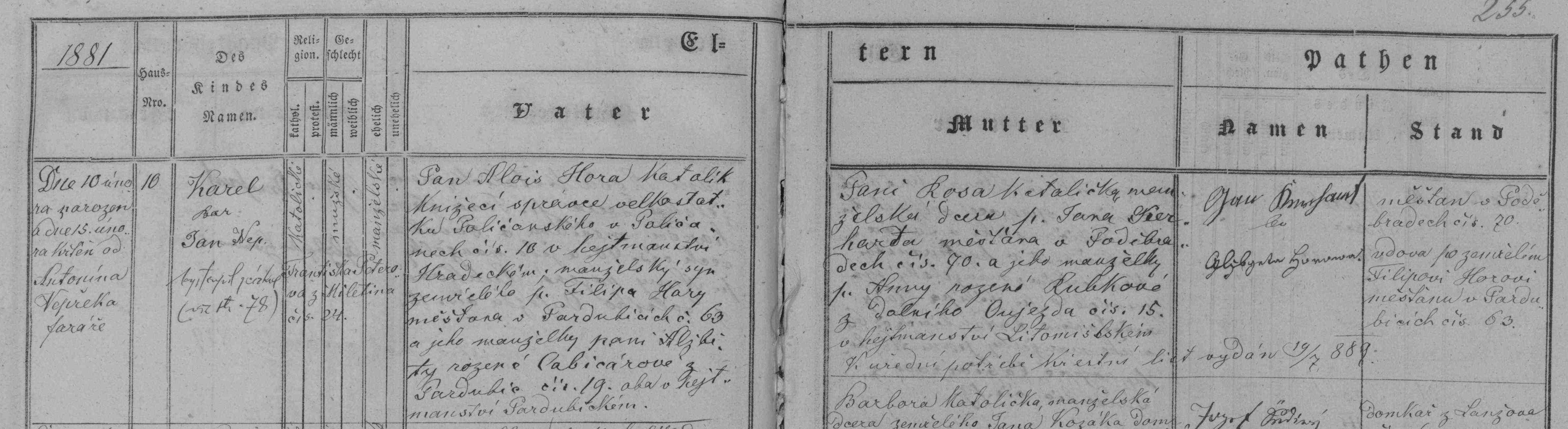 Birth record of Karel Jan Hora, Czech orientalist